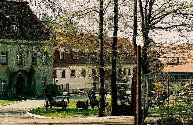 The palace buildings - Janowice Wielkie